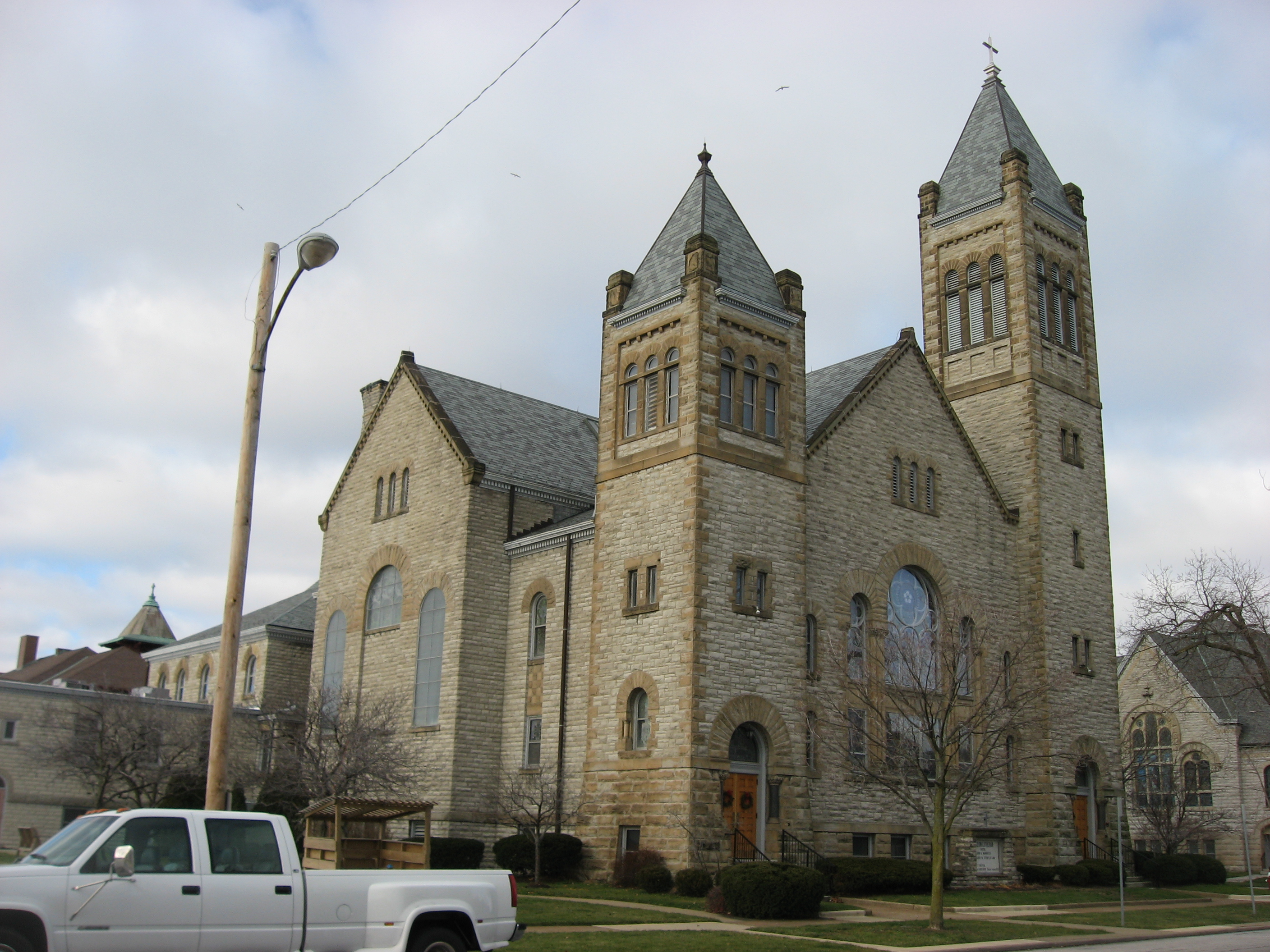 Front and southern side of Zion Lutheran Church, located at 501-503 Columbus Avenue (State Route 4) in Sandusky, Ohio, United States. Built in 1898, it is listed on the National Register of Historic Places.